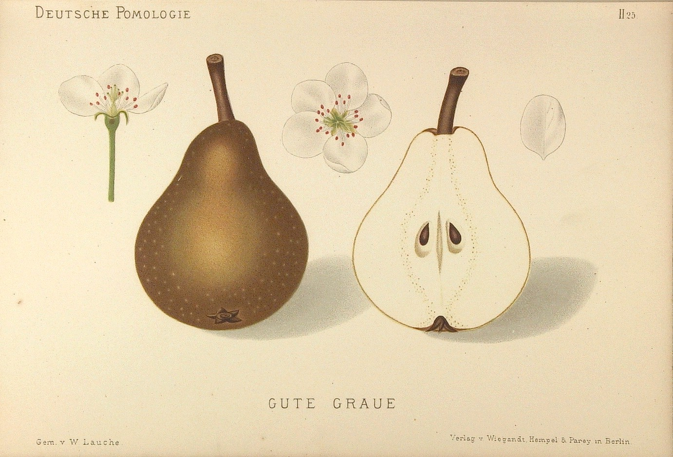 Page 25 from Deutsche Pomologie — Birnen, by Wilhelm Lauche, 1882. Published by Deutsche Pomologen-Vereins (German Pomological Society). Part of a series from the same book. The others can be found in Category:Deutsche Pomologie - Birnen Depicted pear cultivar: Gute Graue